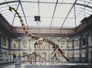 The skeleton of a Giraffatitan in the Berlin Naturkundemuseum (Museum of Natural History)